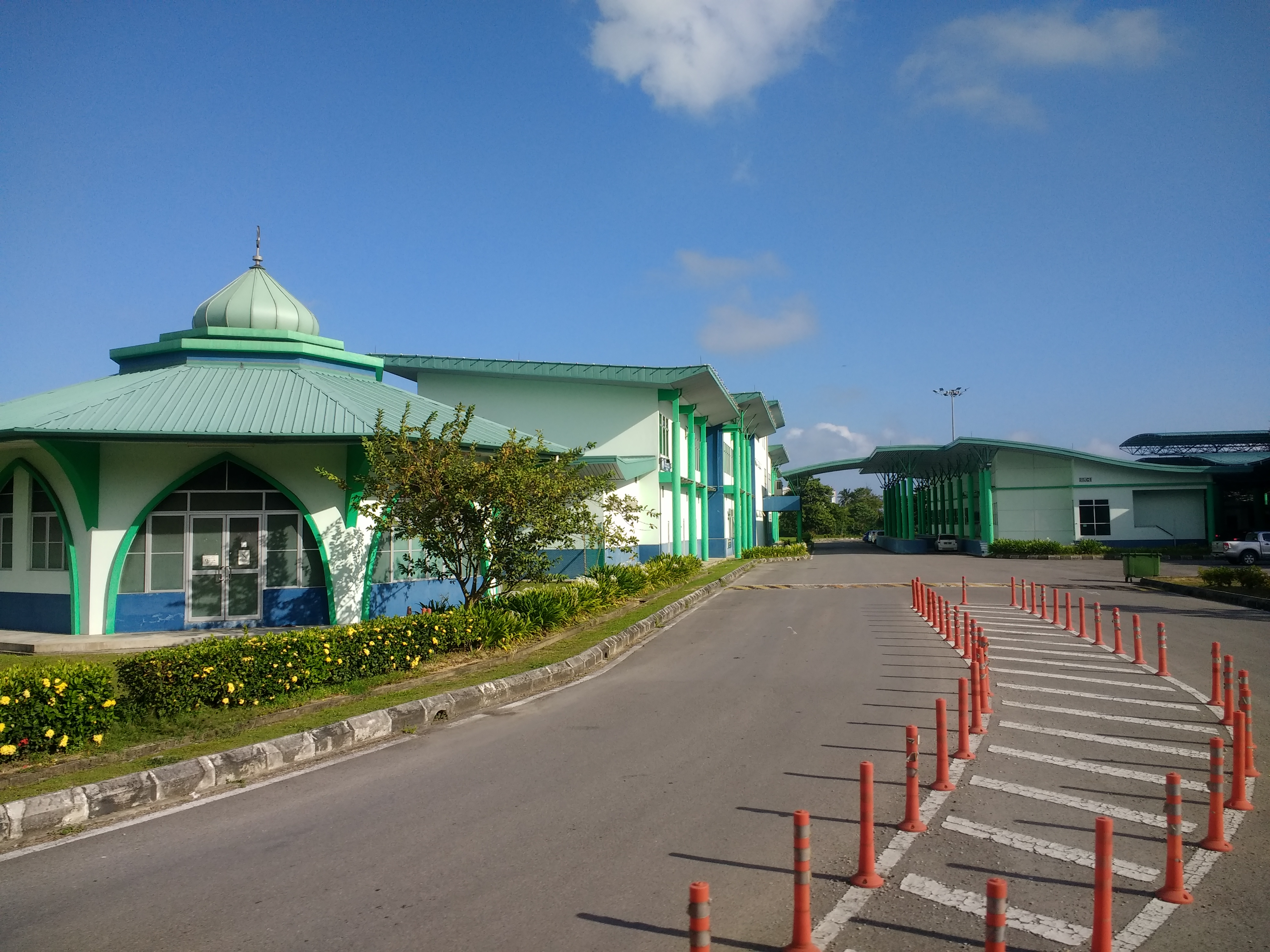 Part of the Malaysian border control complex near the border with Brunei on the road between Miri and Kuala Belait.